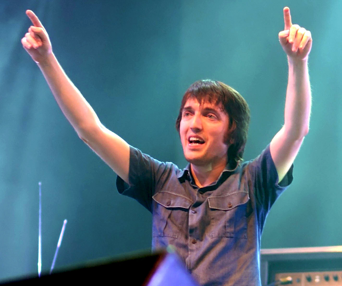 This is a photo of Colin Greenwood from Radiohead on stage at Bonnaroo, 17 June, 2006, by Jesse Aaron Safir (send inquiries to Jesse at VegMonkey dot net), who has agreed to license the work under the Creative Commons Attribution-Share Alike 2.5 United States License. An uncropped version of this photo can be seen on Mr. Safir's online photo album - although the version uploaded here was sent to me via email by Mr. Safir directly for upload to Wikipedia.